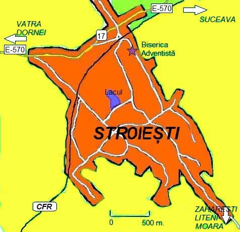 A map of Stroiesti more detailed